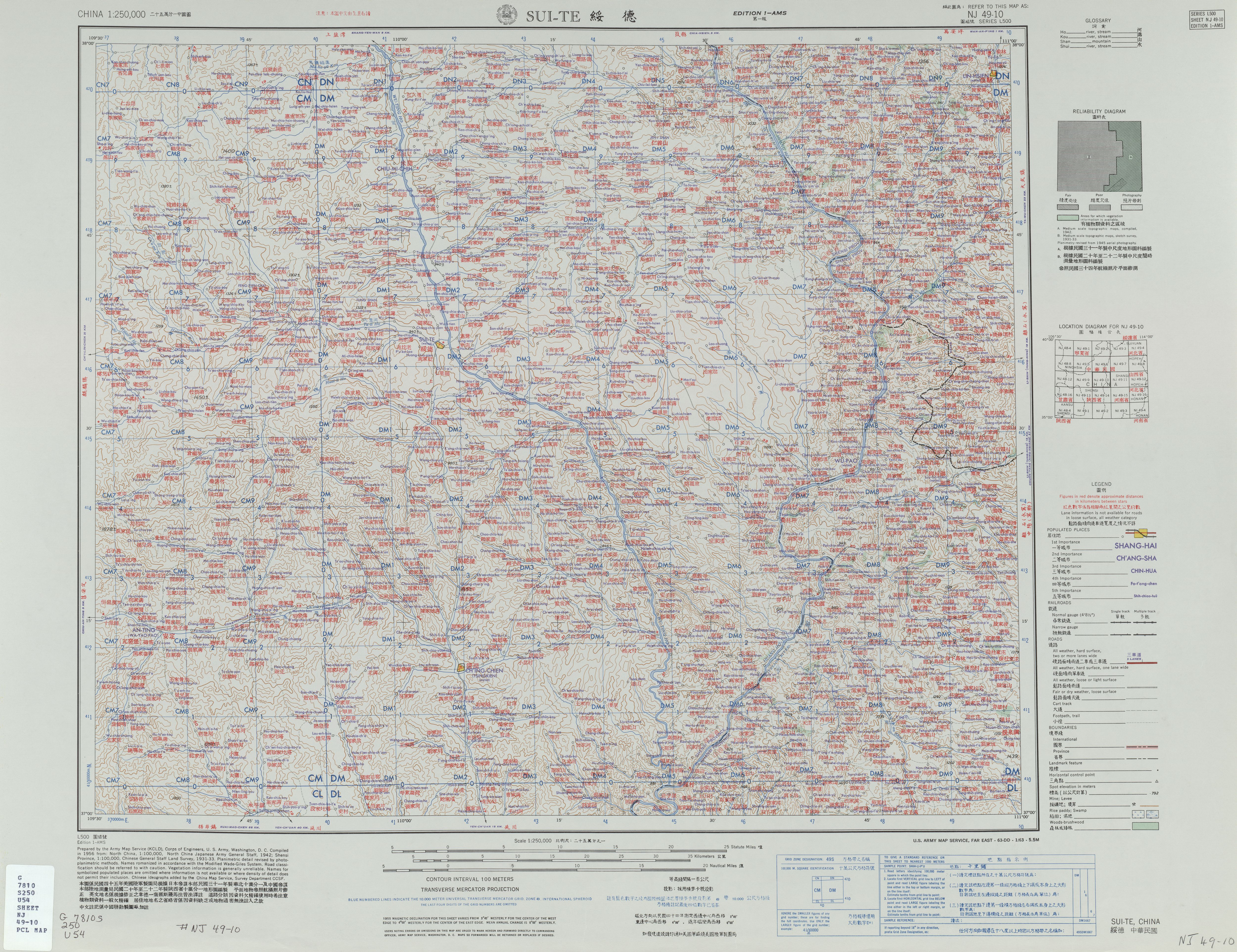 China AMS Topographic Maps